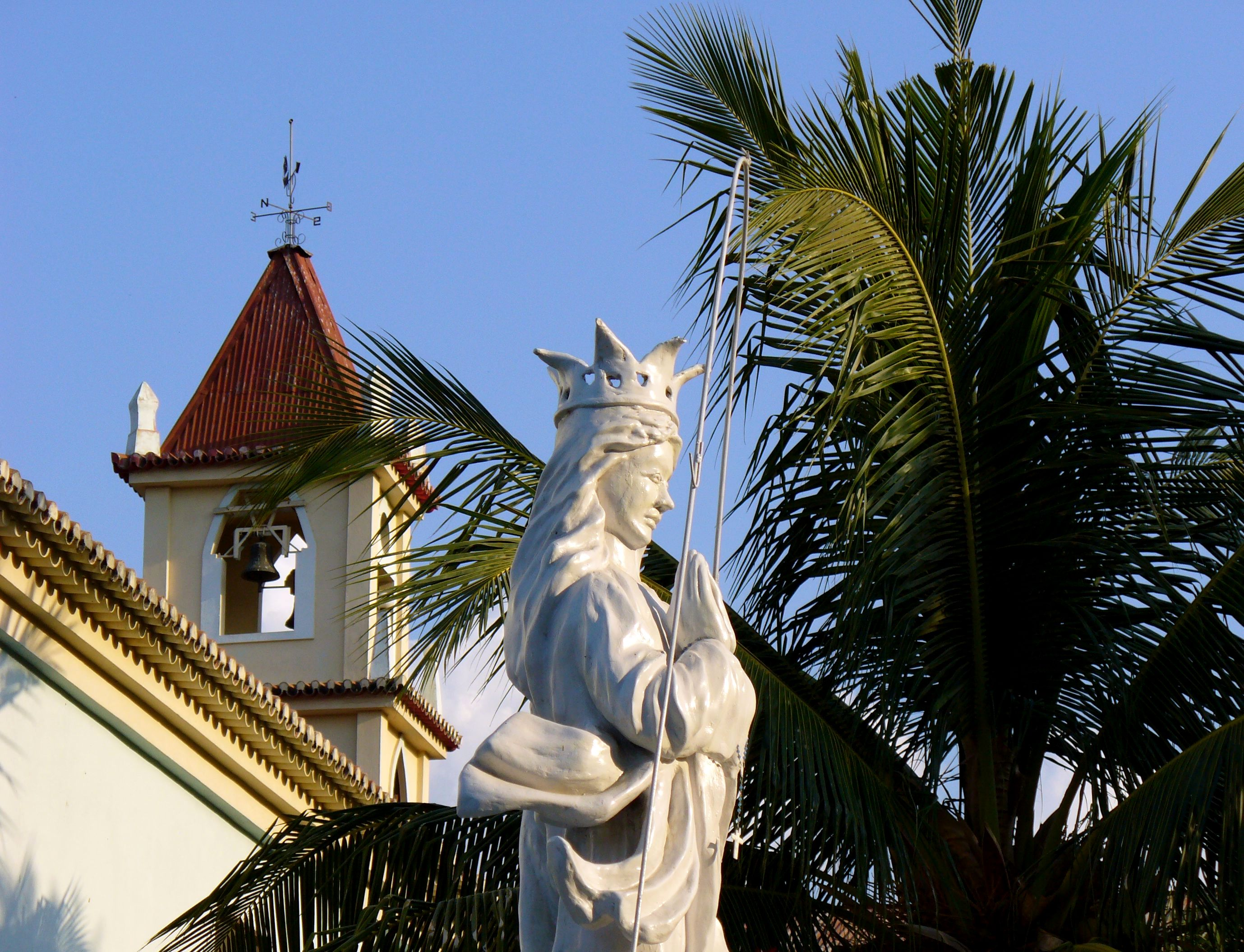 Balide church, Dili, East Timor